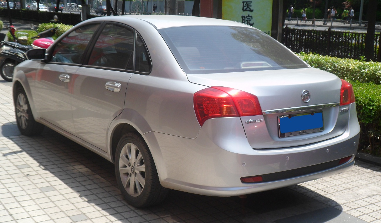 Buick Excelle facelift photographed in Shanghai, China.